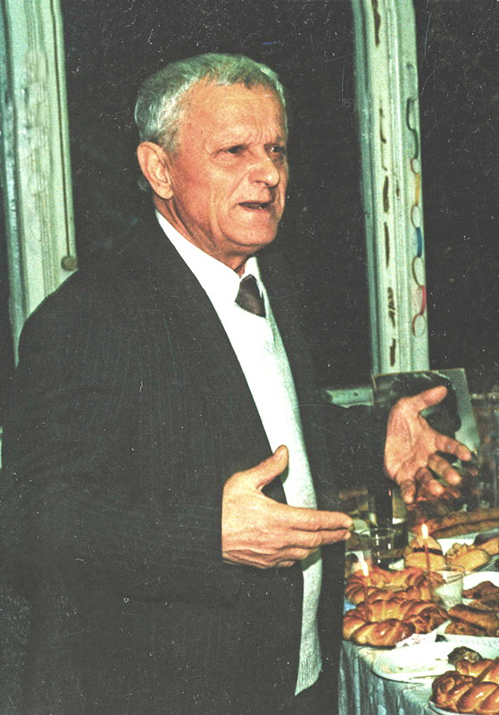 Vladimir Besleaga — the Moldavian writer.